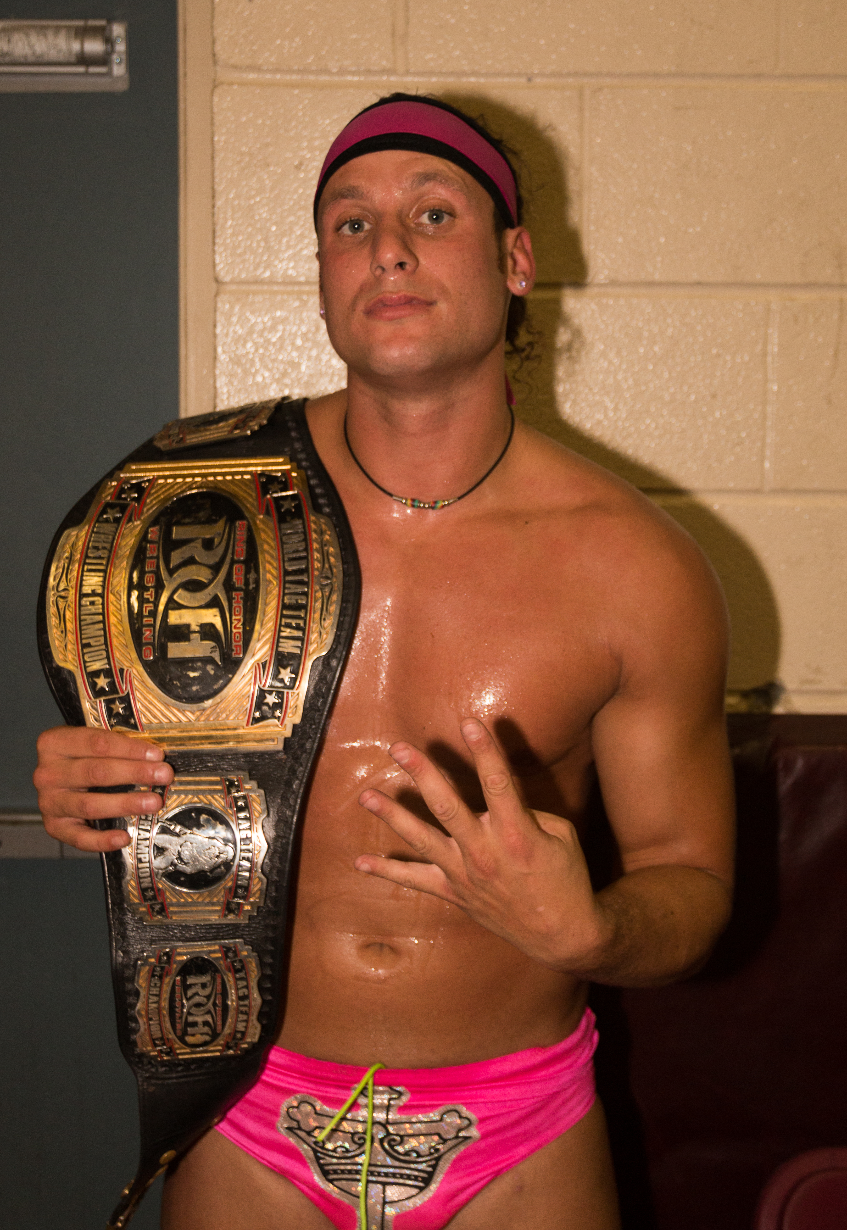 Matt Taven post-match with the Ring of Honor Tag Team Championship belt at a Smash Wrestling show in Etobicoke, ON